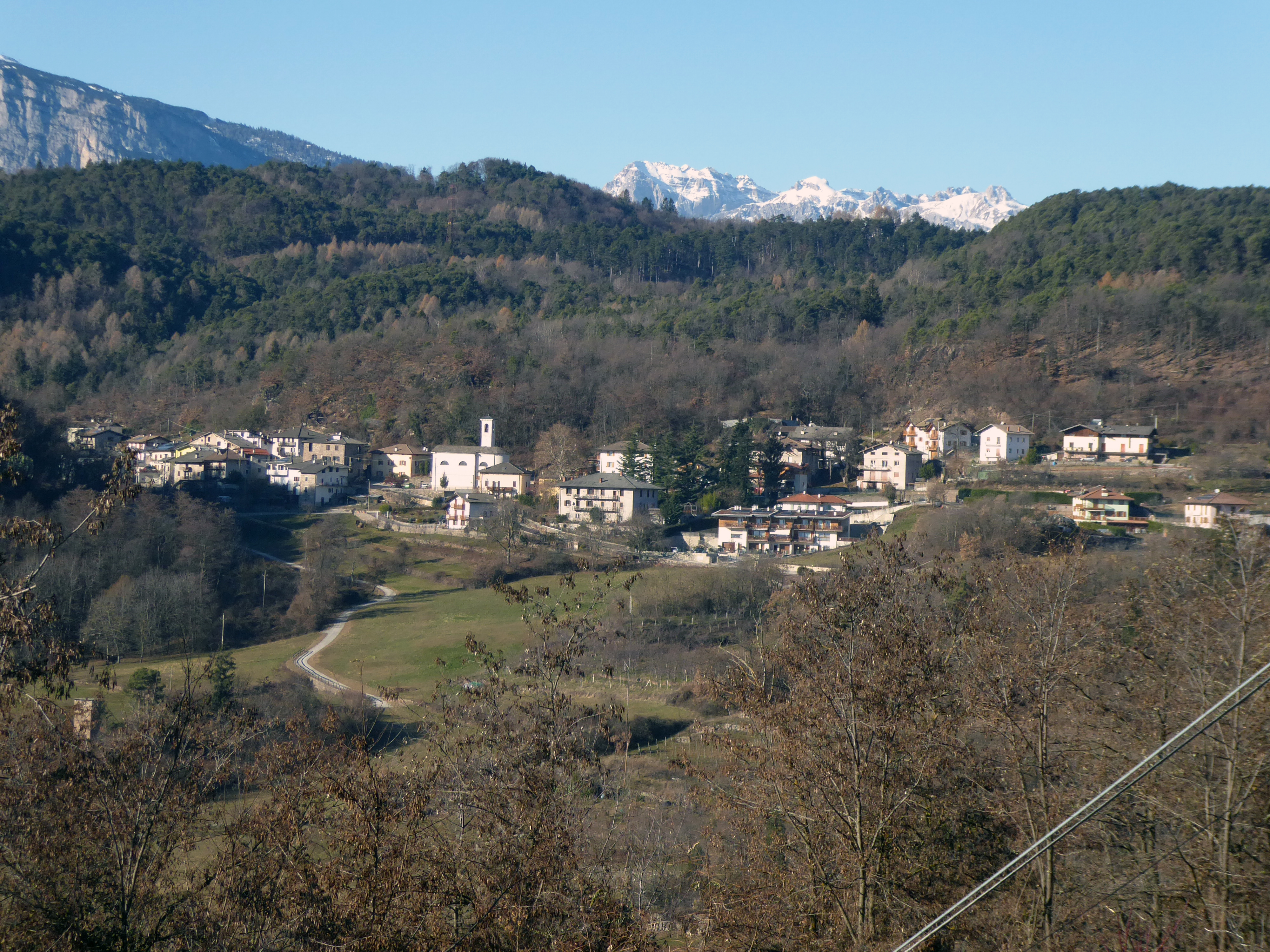 Bosco (Civezzano, Trentino, Italy) as seen from nearby Sant'Agnese